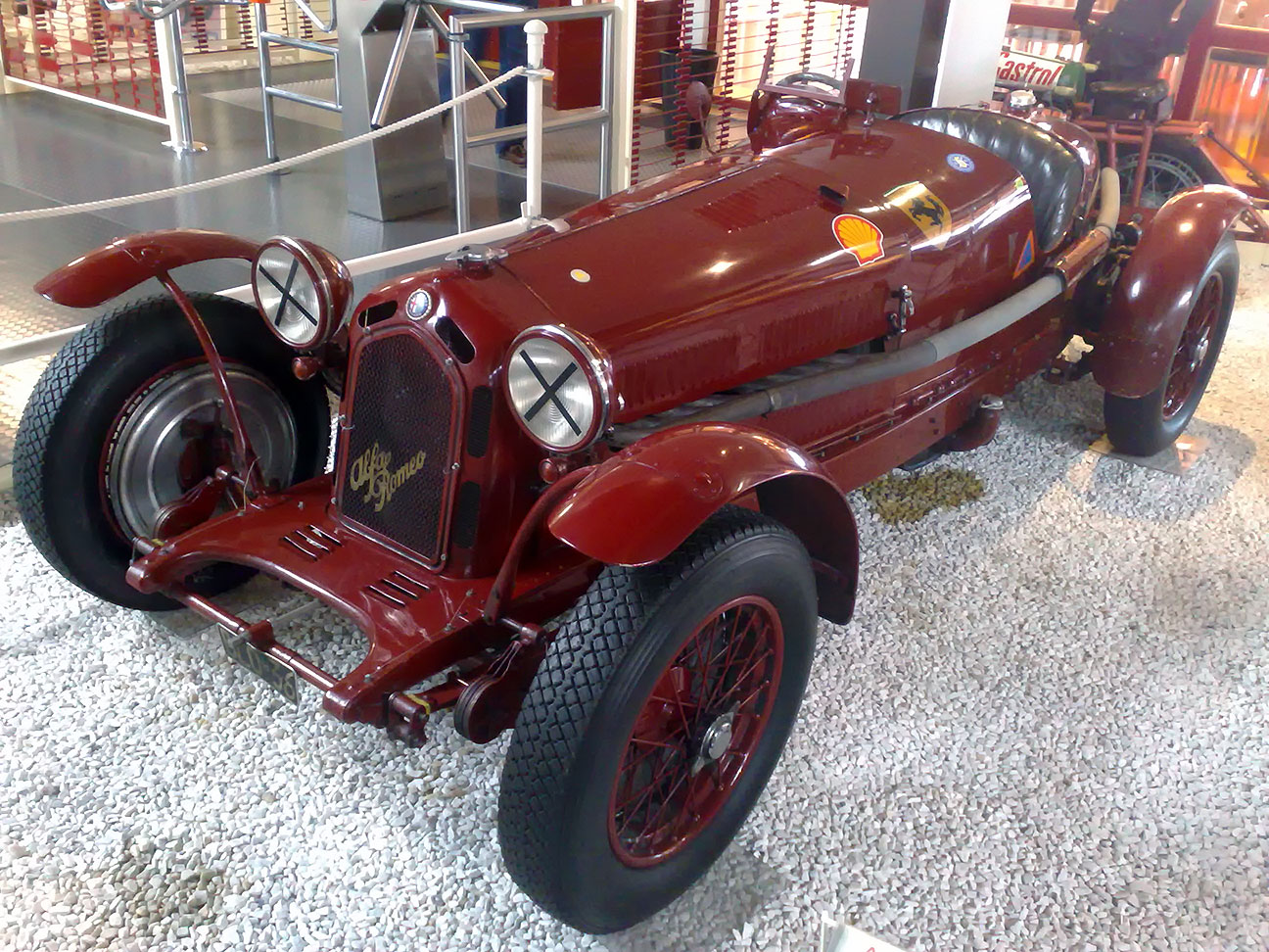 Alfa Romeo 8C Scuderia Ferrari at Auto- und Technikmuseum Sinsheim